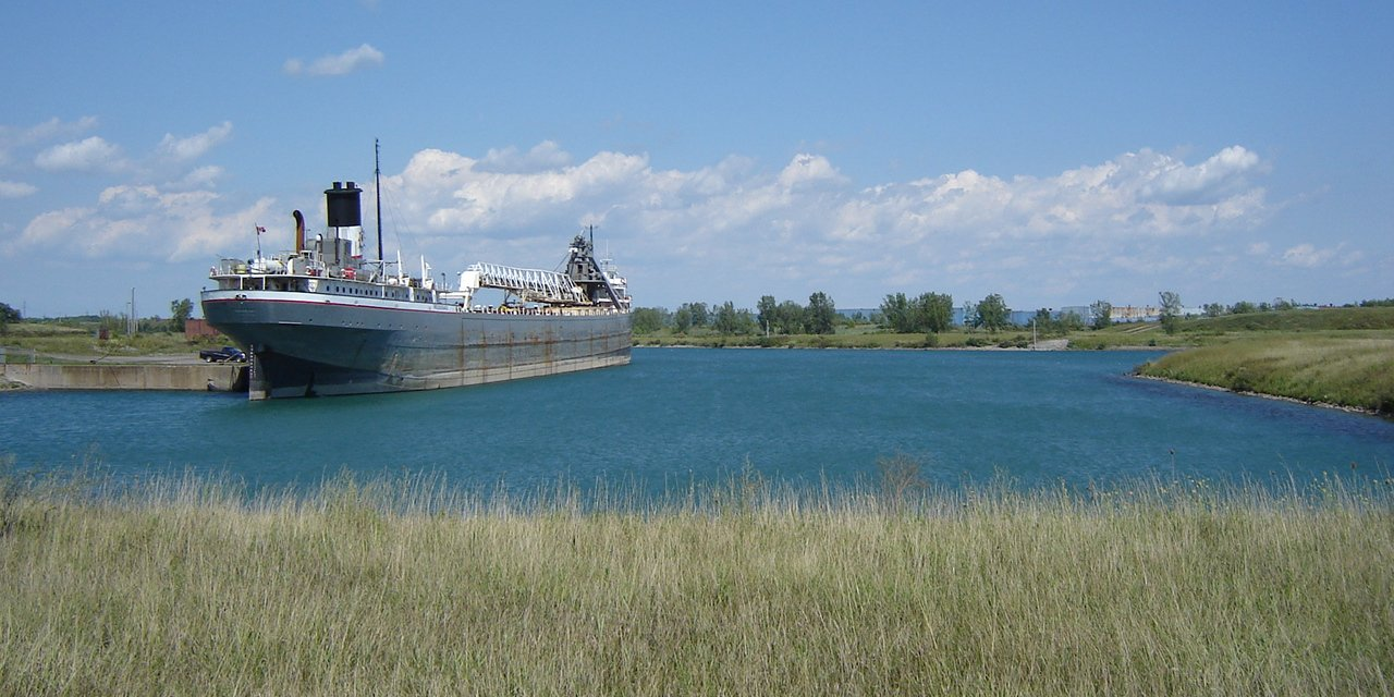 A ship in the Welland Dock on the Welland By-Pass part of the Welland Canal (and no, I'm not being Welland-centric here)